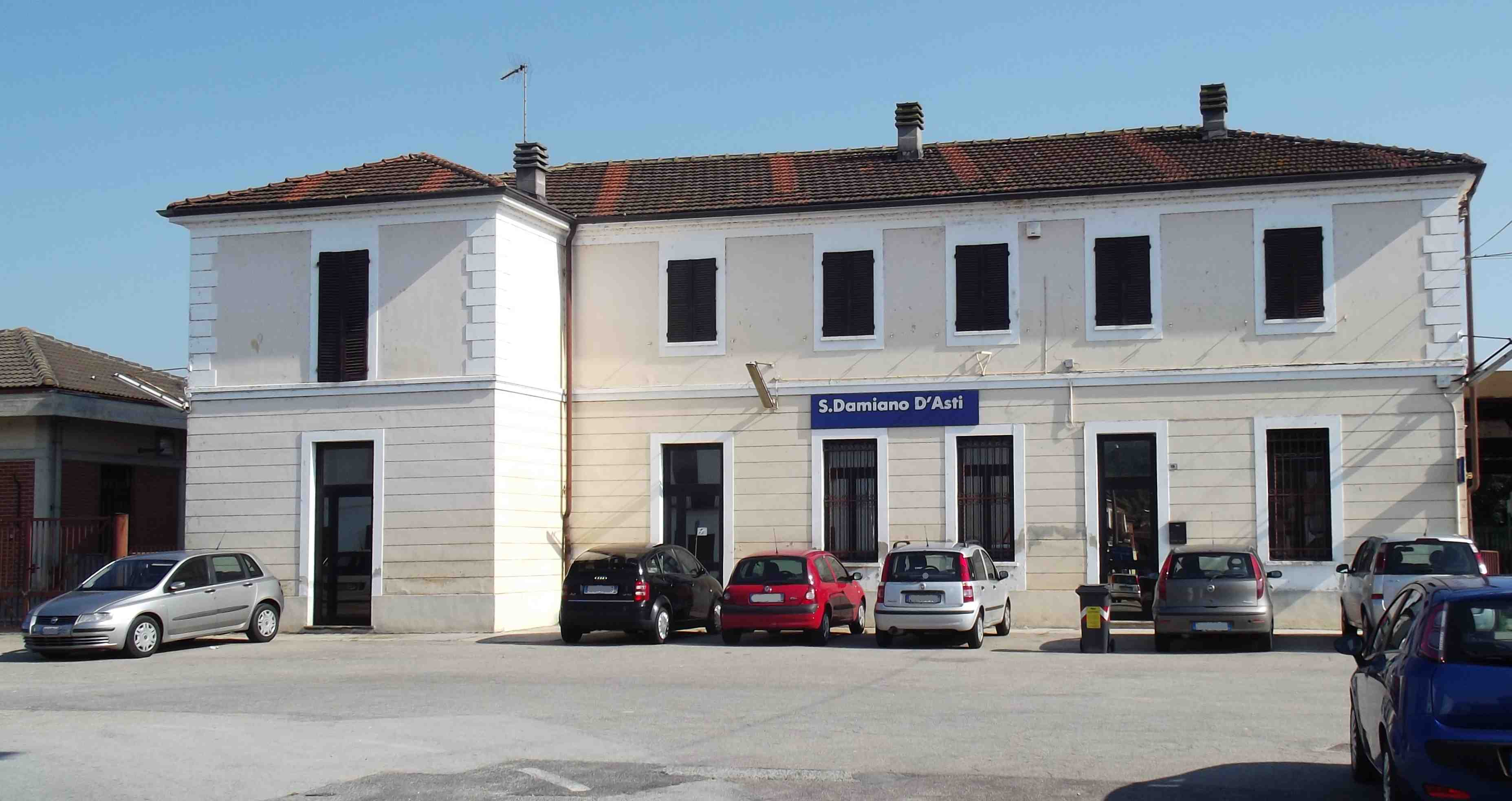 Vaglierano (Asti, Italy): train station (nowadays of San Damiano d'Asti)